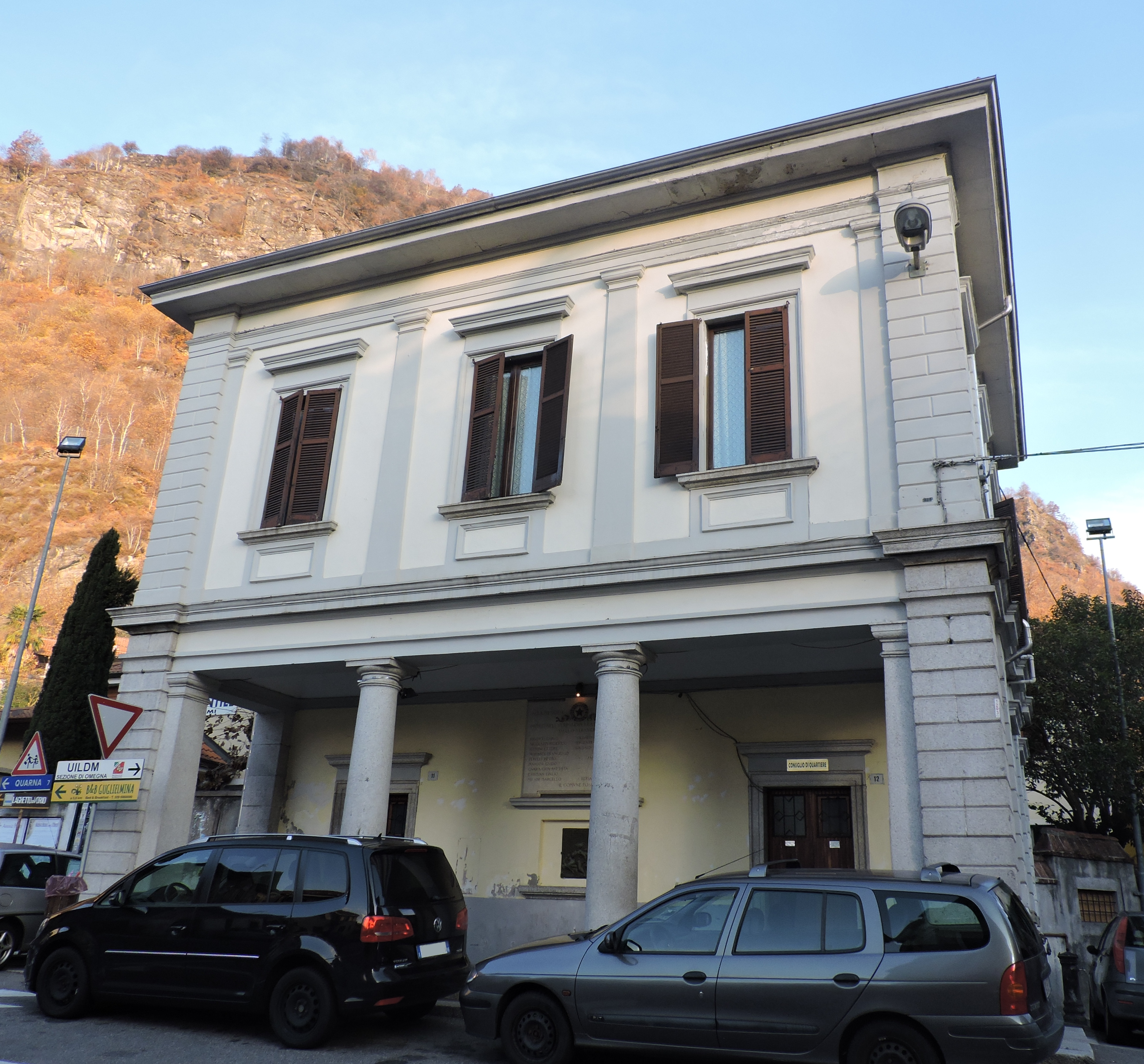 Cireggio (Omegna, VB): former town hall